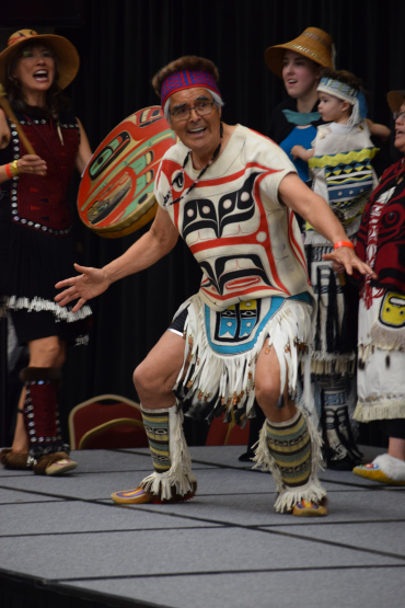 A Haida dances in full regalia.